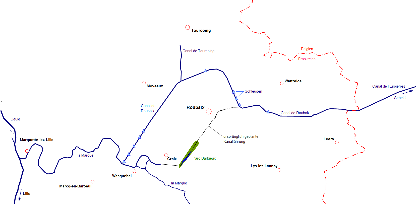 Run of the canal de Roubaix, France.